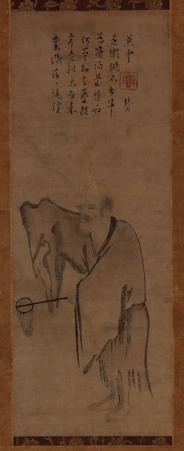 A hanging scroll painting of Xianzi, the Shrimp Eater. Dates to the Southern Song Dynasty (mid 13th century.)